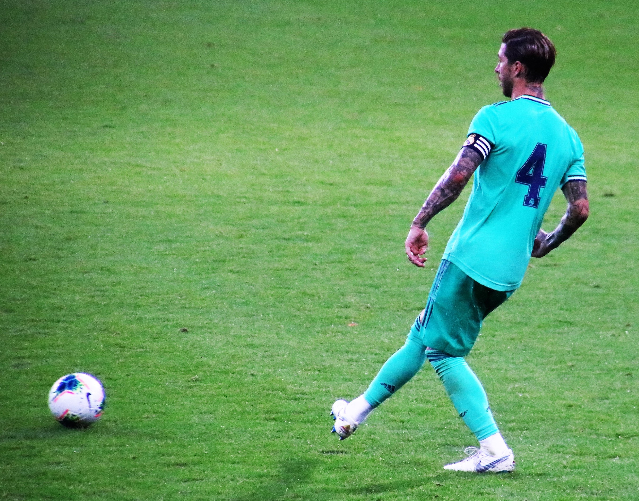 Preseason match